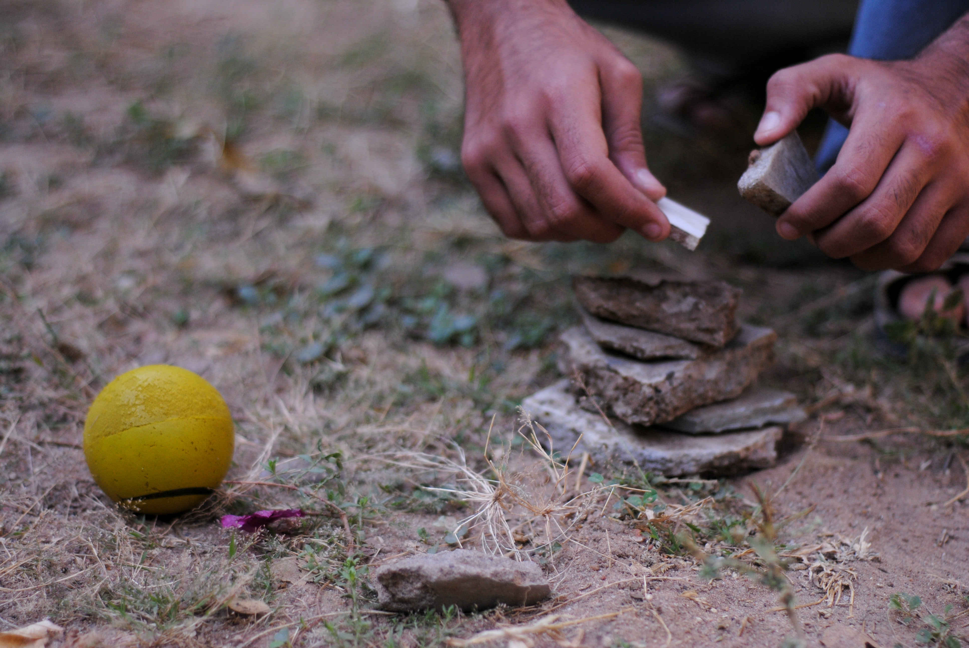 This image is of a game played in India called Pittu Garam or Satoliyu. The tower of seven stones being arranged is the main part of the game.